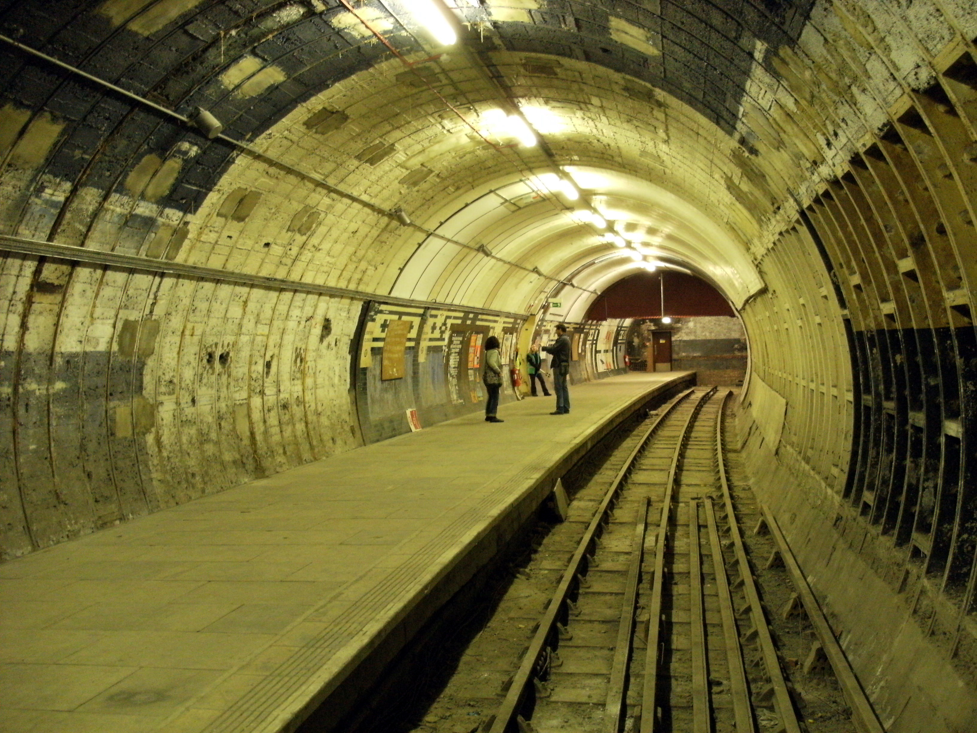 Eastern platform at Strand tube staton (as it was named when this platform was taken out of use).